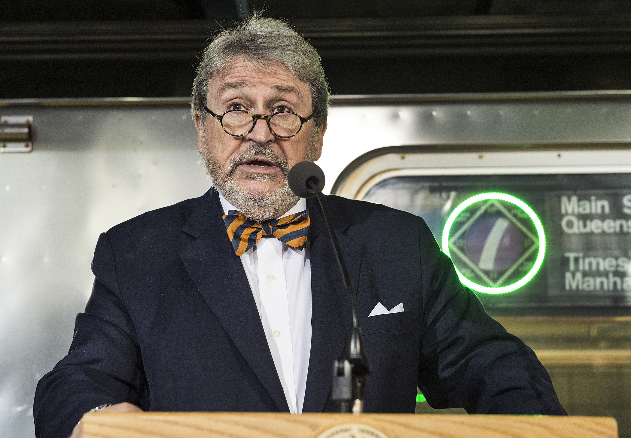 MTA Capital Construction President Michael Horodniceanu speaks at press event before taking first ride with Mayor Michael Bloomberg and other officials took the first ride on the extension of the 7 Subway line, terminating at the new subway station located at 34th Street and Eleventh Avenue in Manhattan. Photo: MTA / Patrick Cashin Mayor and MTA Officials Ride 7 Line Extension